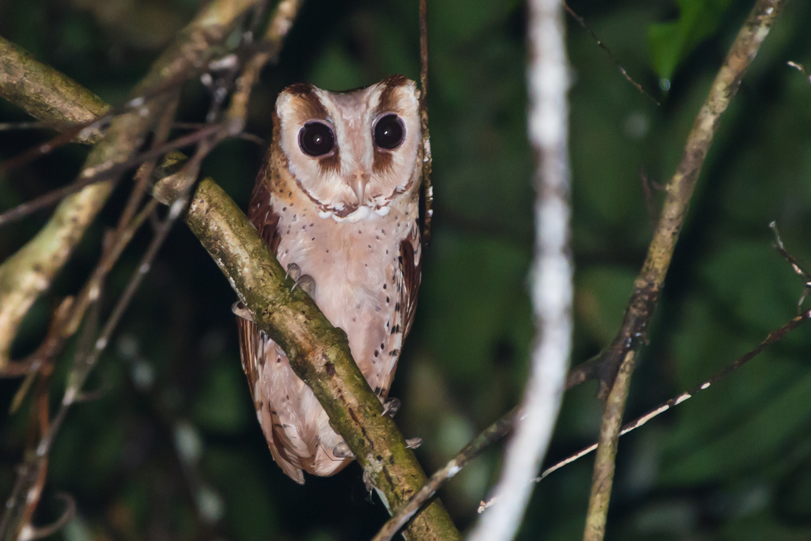 Oriental bay owl, Phodilus badius - Khao Yai National Park, Thailand